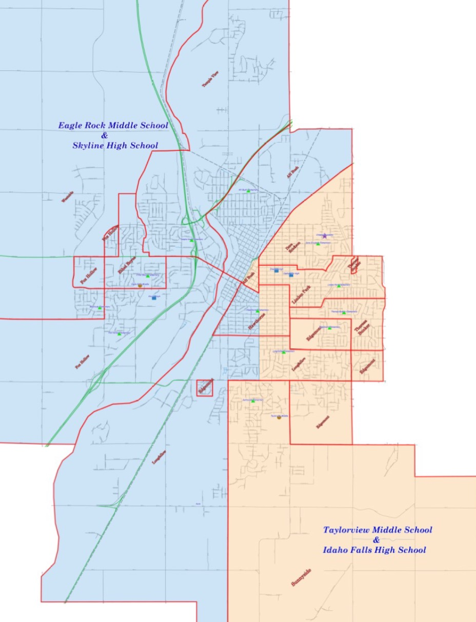 School Attendance Boundaries